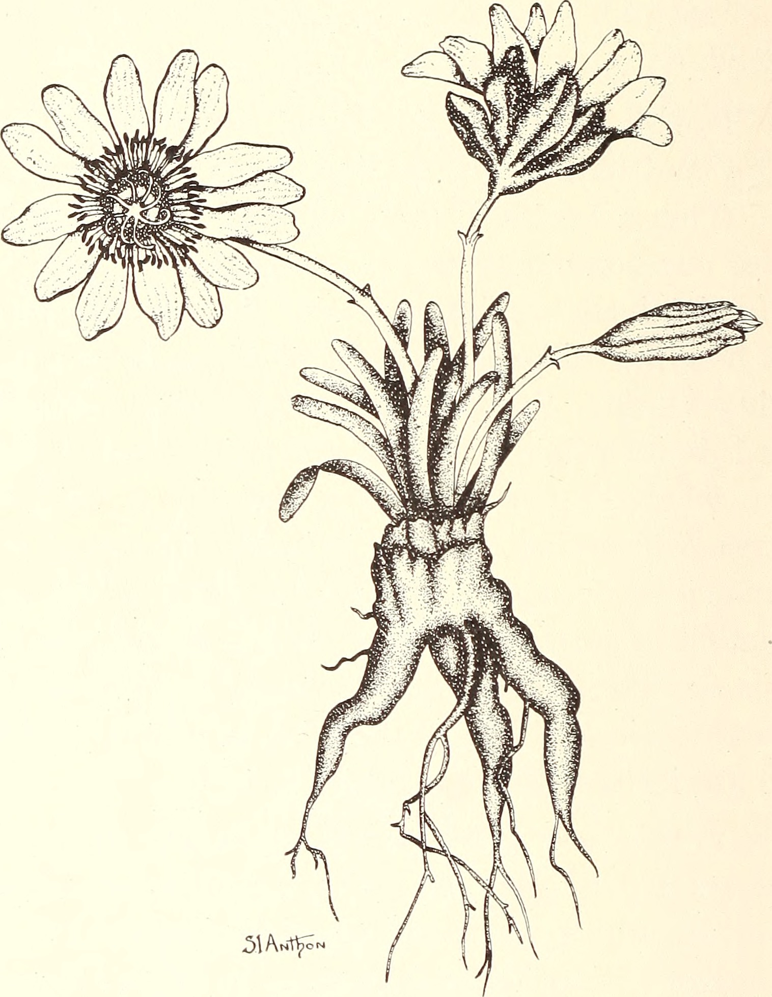 Title: The American botanist : a monthly journal for the plant lover Year: 1901 (1900s) Authors: Subjects: Botany Publisher: Binghamton, N. Y. : Willard N. Clute & Co. Text Appearing Before Image: 46 THE AMERICAN BOTANIST fairly seem to pop out of the ground and burst into bloom. And their beauty is quite as entrancing as their sudden emerg- ence. The rock-rose as it is perhaps more fittingly called, clearly shows its relation to our garden portulaca in its leaves. These form an irregular rosette of round, juicy looking fila- Text Appearing After Image: The Bitterroot—one-half natural size. ments of a reddish green color with a markedly grainy surface. Below the leaves lies an irregularly forked root. This has usually several Jialf-inch thick main branches and then a few thin fibers coming from these. The roots are brownish black in color. Each little plant bears a few flowers; flowers so dainty